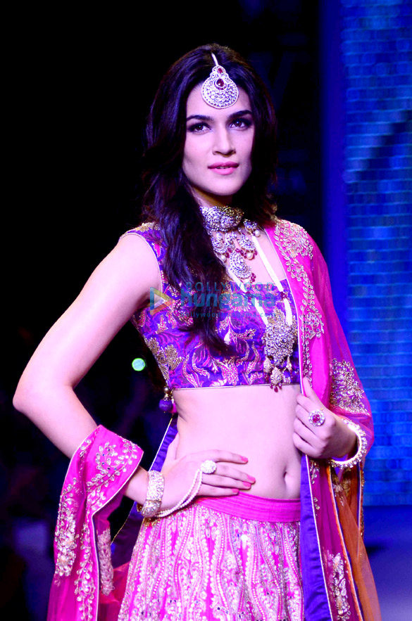 Actress Kriti Sanon walks the ramp for Sunil Jewellers at IIJW 2015